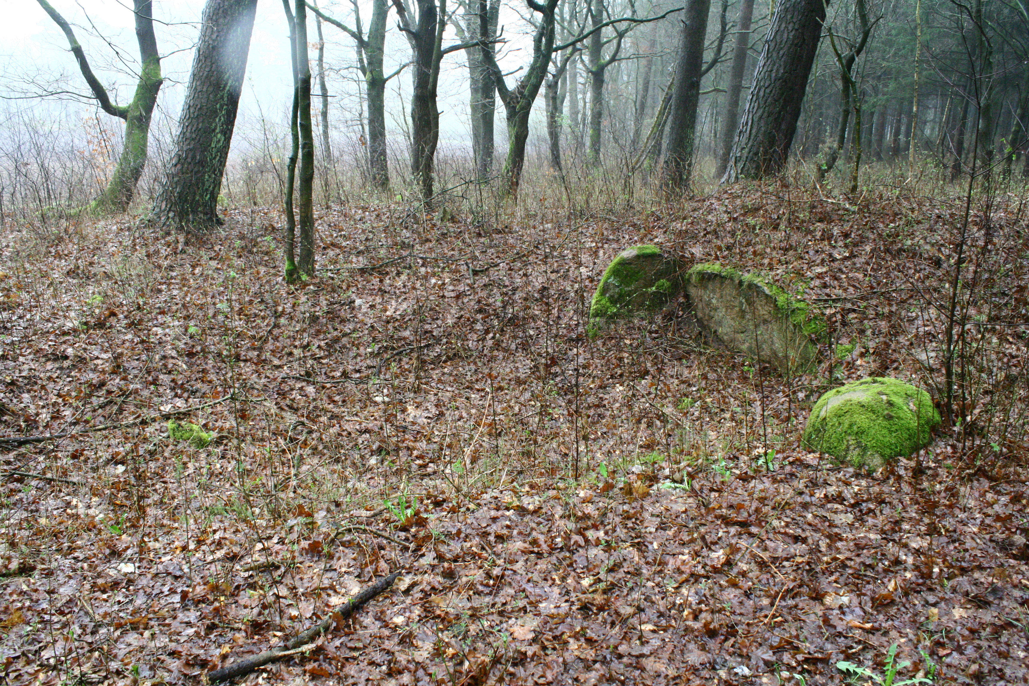 Megalithic tomb Horneburg 3